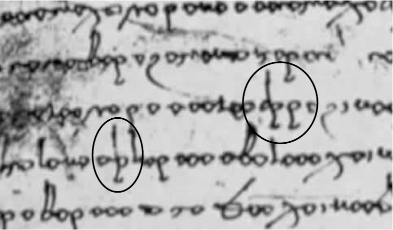 Bactrian document I 623001, showing Greek letters Phi, Rho, and Sho.